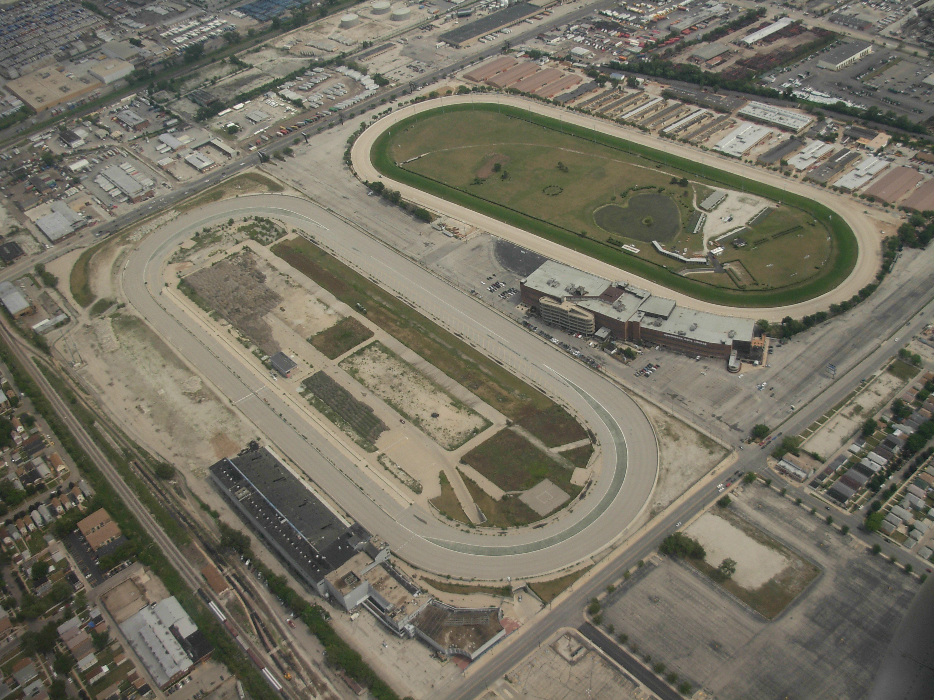 The demolished Chicago Motor Speedway and the Hawtorne Race Course in Cicero, Illinois.